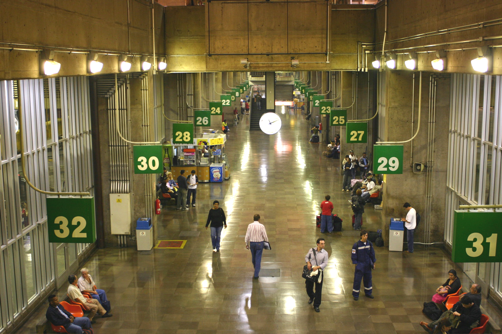 Departure gates at the Tiete bus station in São Paulo.